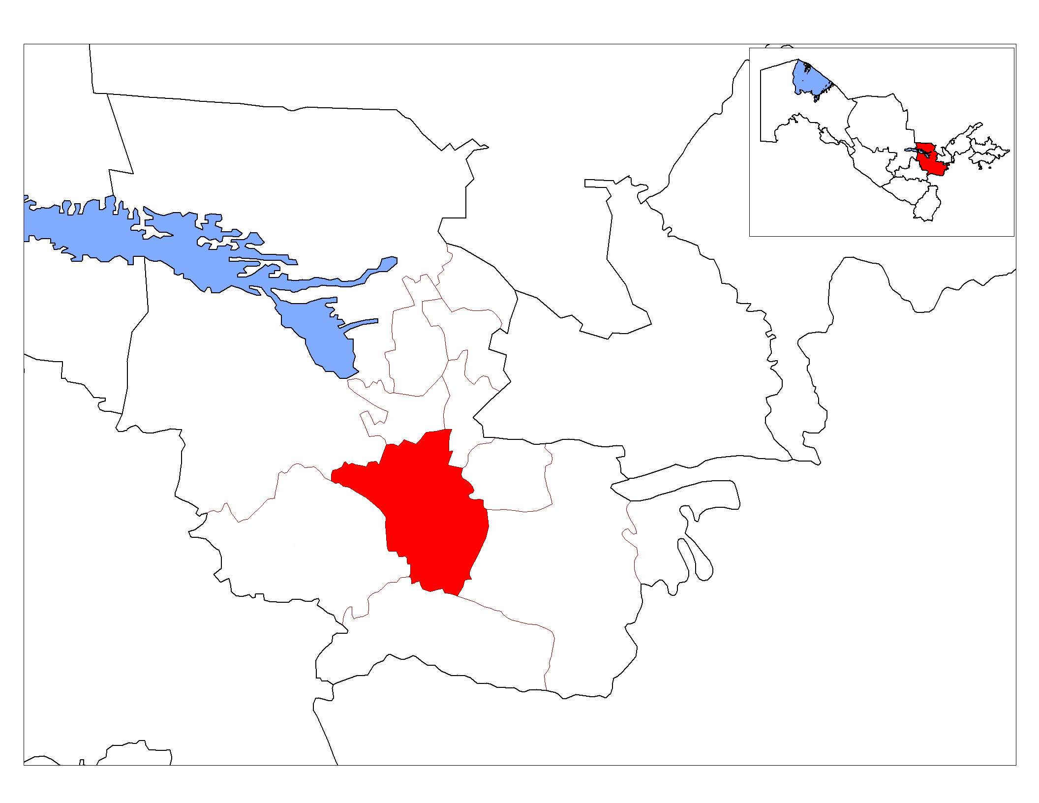 Location map of Ошяяфч District in Jizzax Province, Uzbekistan